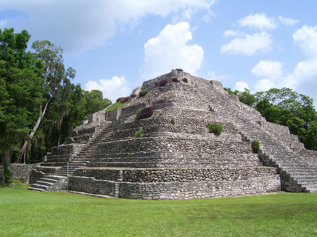 Pyramid in Chacchoben, a maya site in Quintana Roo